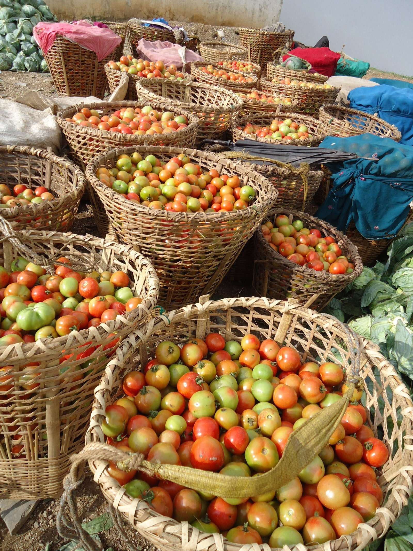 Tomato baskets being ready for market in Nepal.